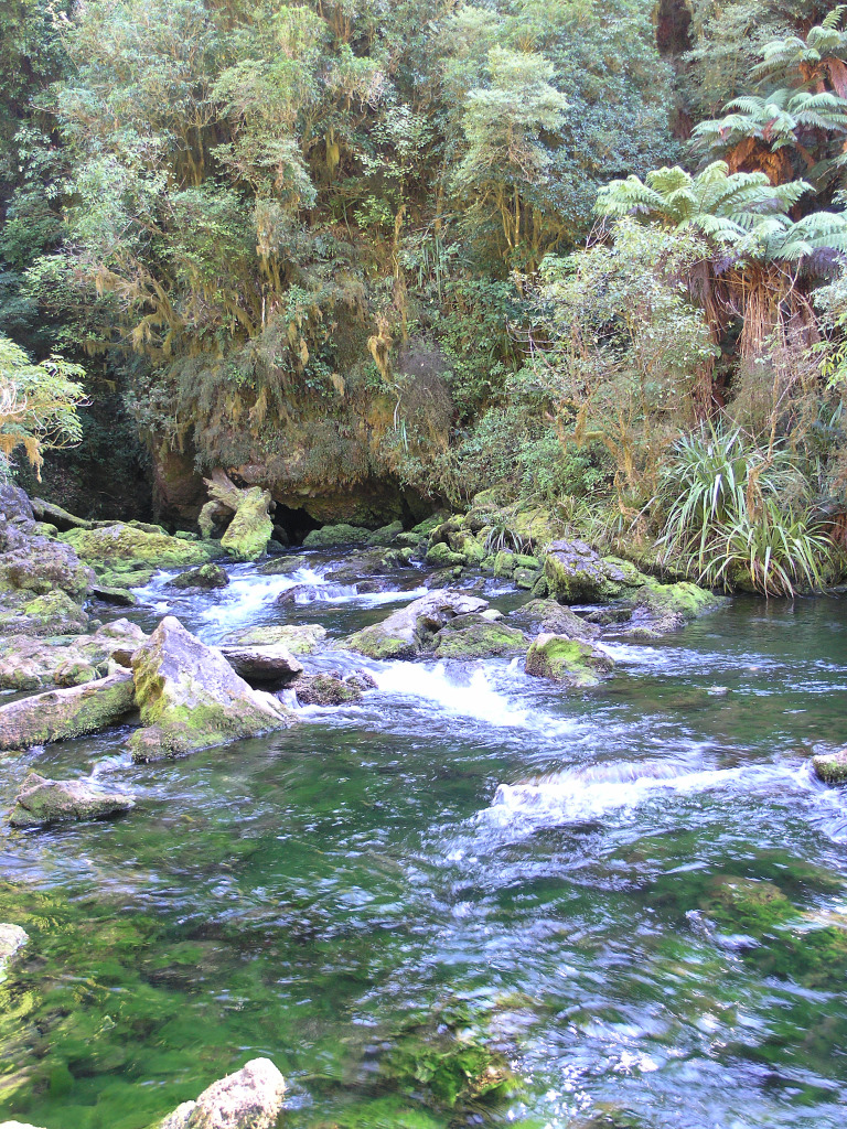 The Pearse Resurgence, water issuing from the Nettlebed Cave System in New Zealand. It is nearby the lower entrance to the cave.